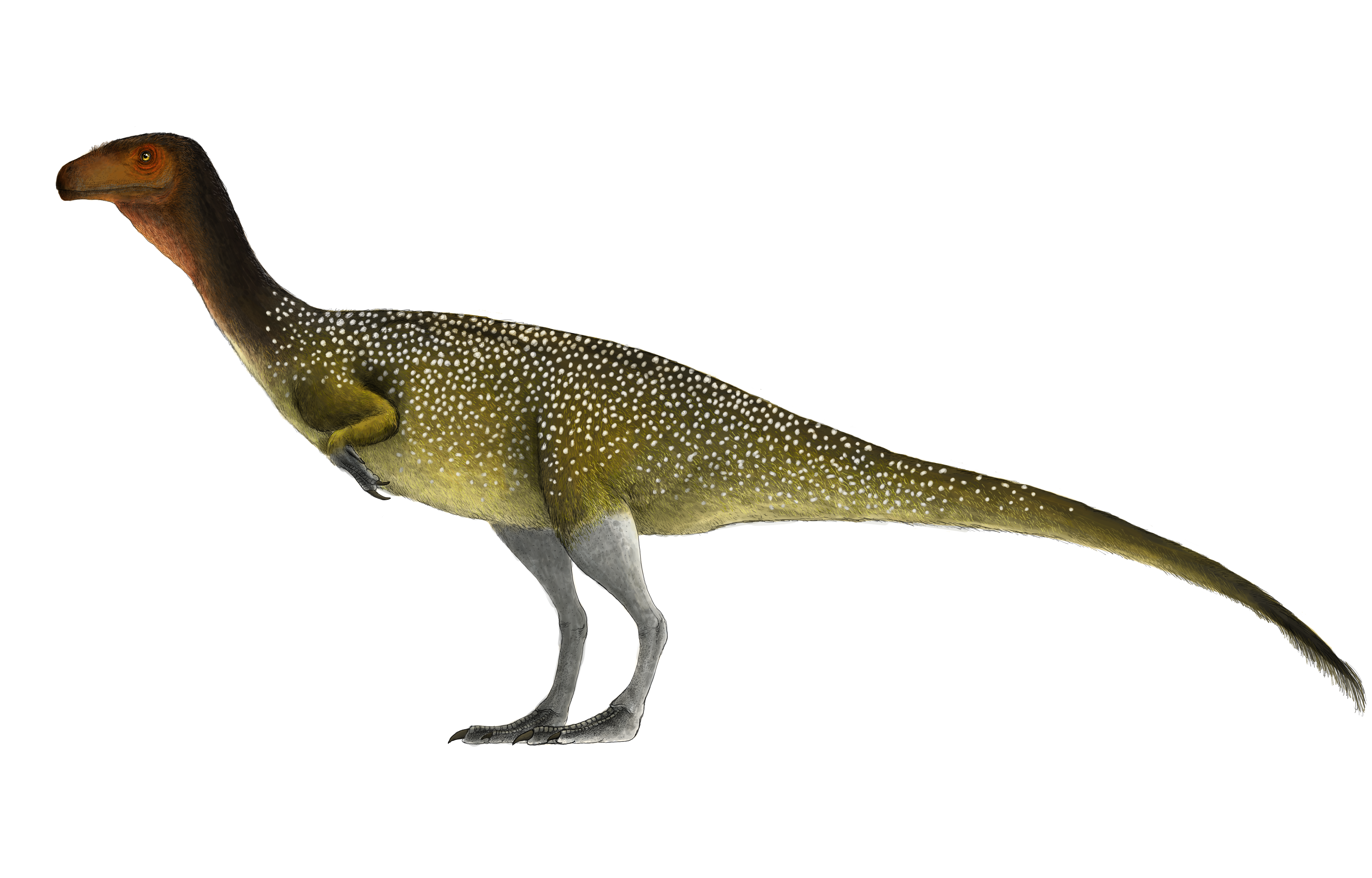 Digital reconstruction of Chilesaurus showing characteristic arm-folding and speculative filaments.